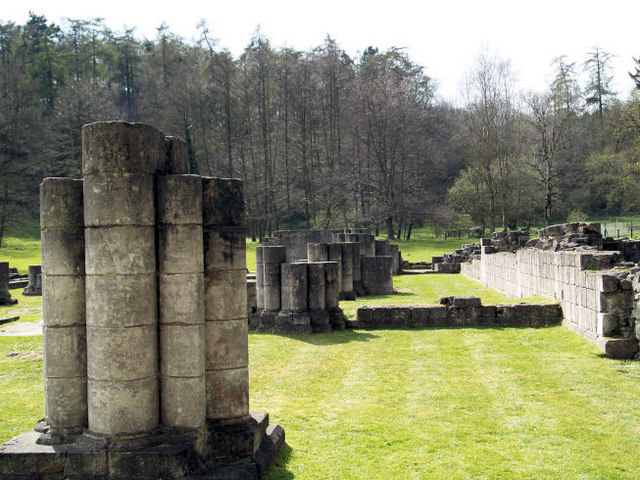 Roche Abbey